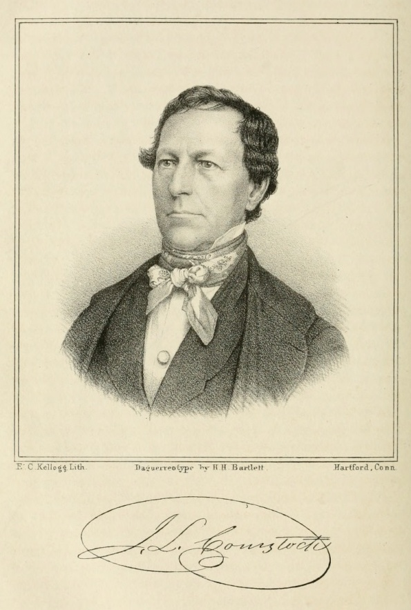 Portrait of Dr. John Lee Comstock (American, 1787 - 1858)